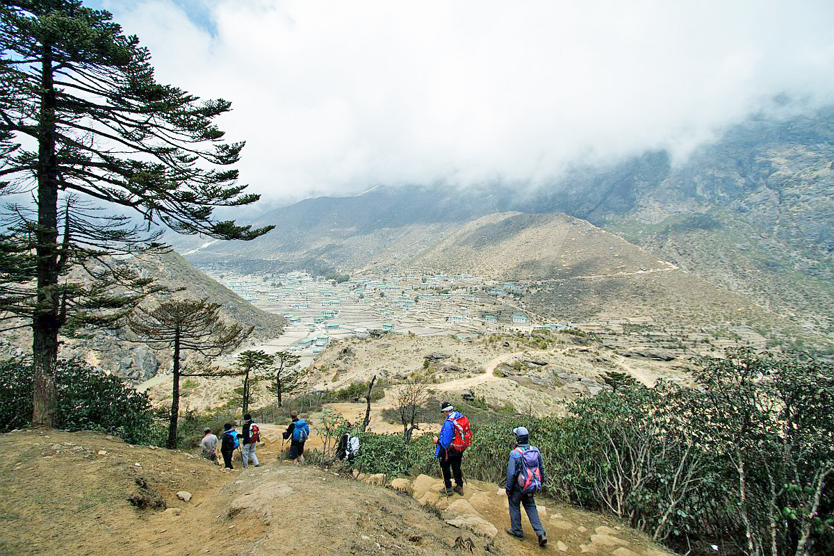 photo taken on the Mount Everest Base Camp Trek - day 3 - Namche Bazar to Khumjung